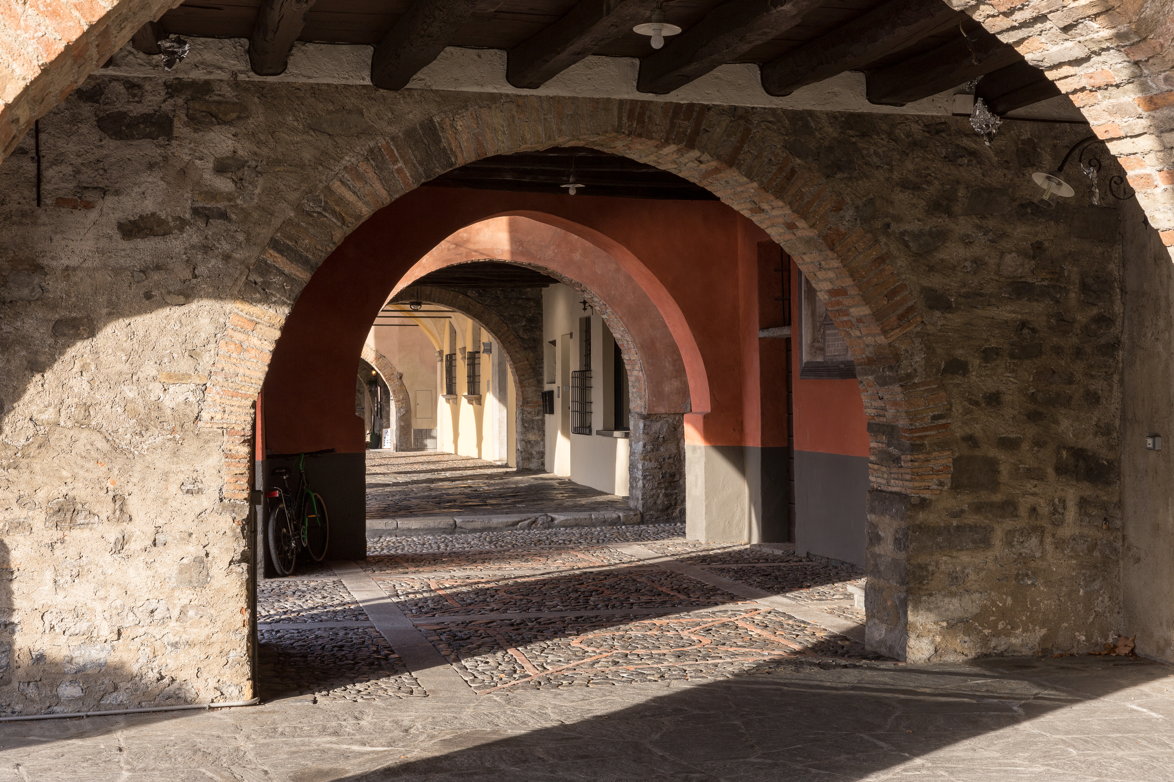 Arcades in Bissone, Lac Lugano, Ticino, Switzerland in Nov. 2017